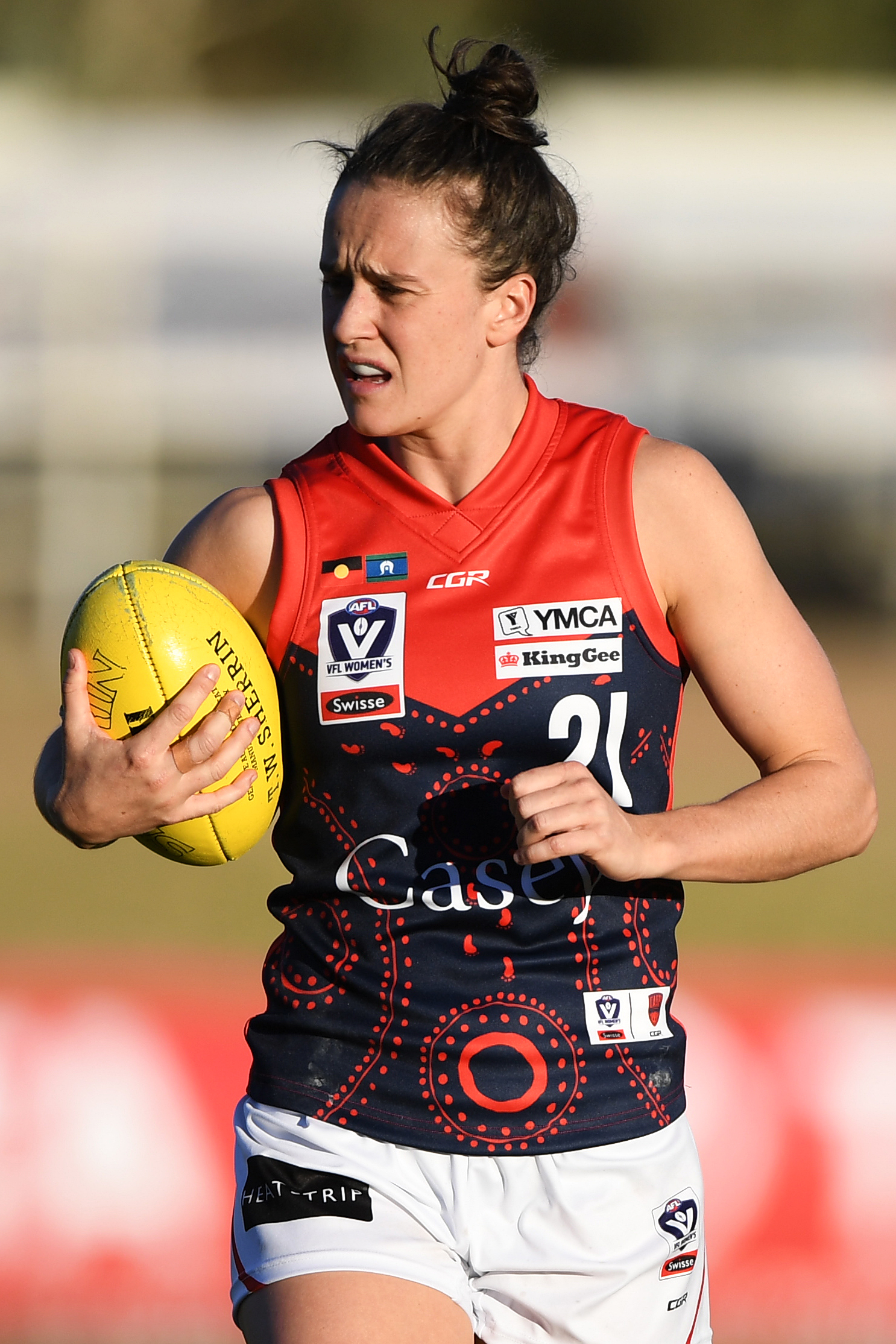 Harriet Cordner of Casey during the 2019 VFLW round 11 match between NT Thunder and Casey at Traeger Park on Saturday, 20 July 2019 in Alice Springs, Northern Territory.